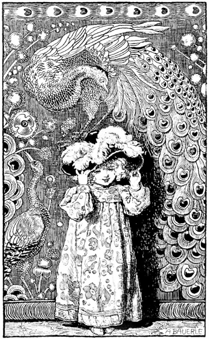 for "The Yellow Book", which was published in London 1897.